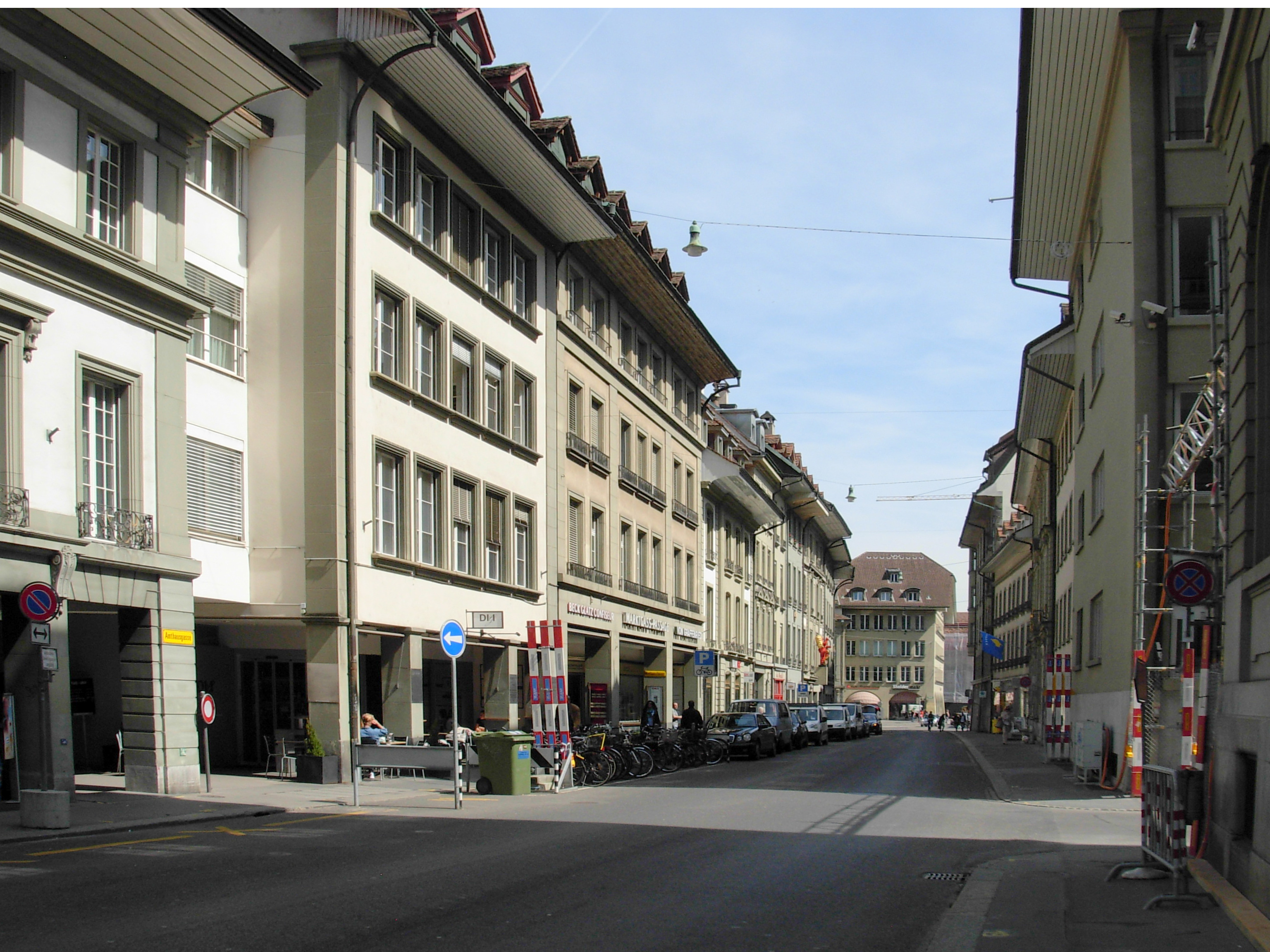 Amthausgasse in Bern, Switzerland looking in the direction of the Casinoplatz